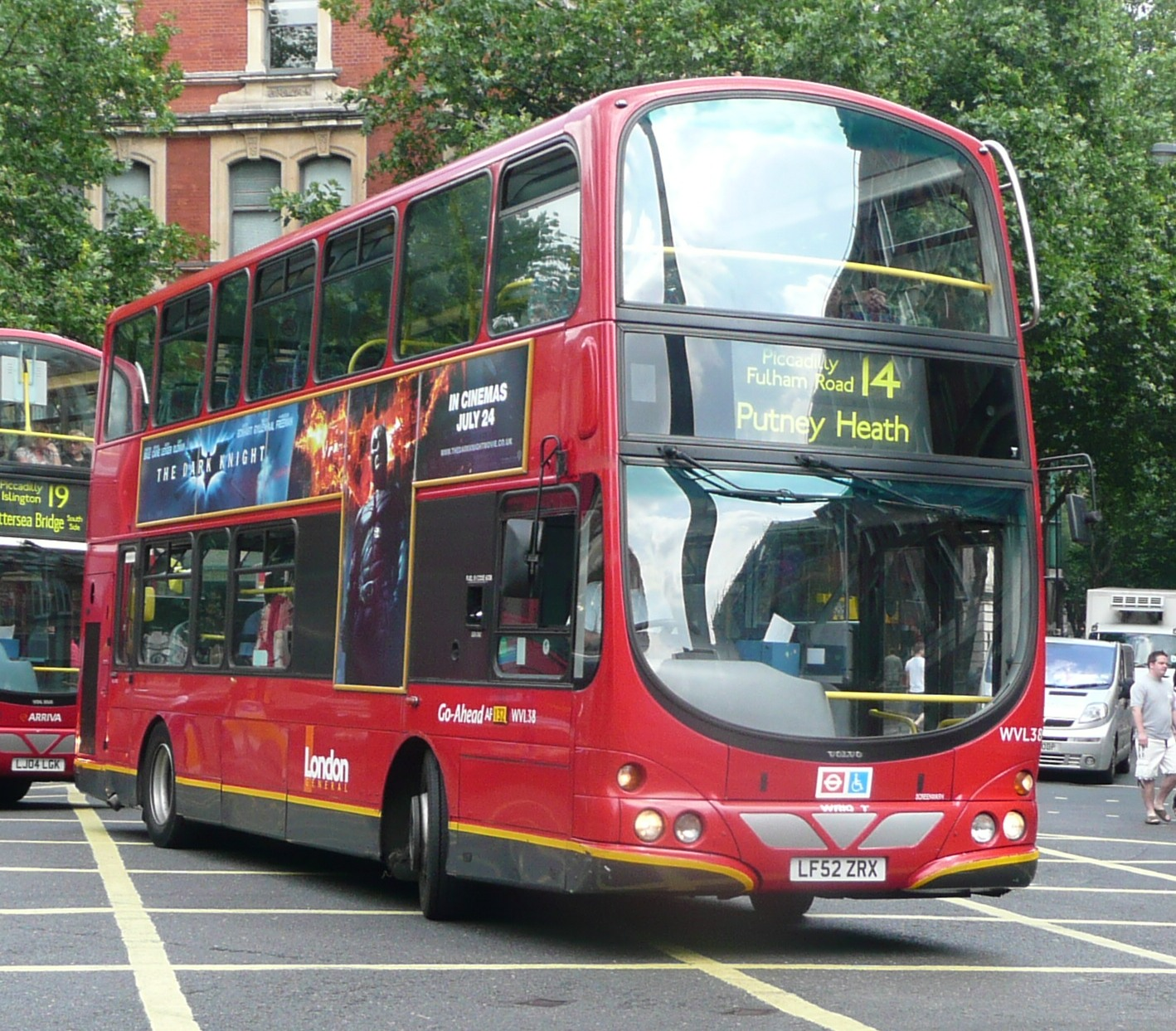 A Volvo B7TL/Wright Eclipse Gemini owned by London General on London Buses route 14.